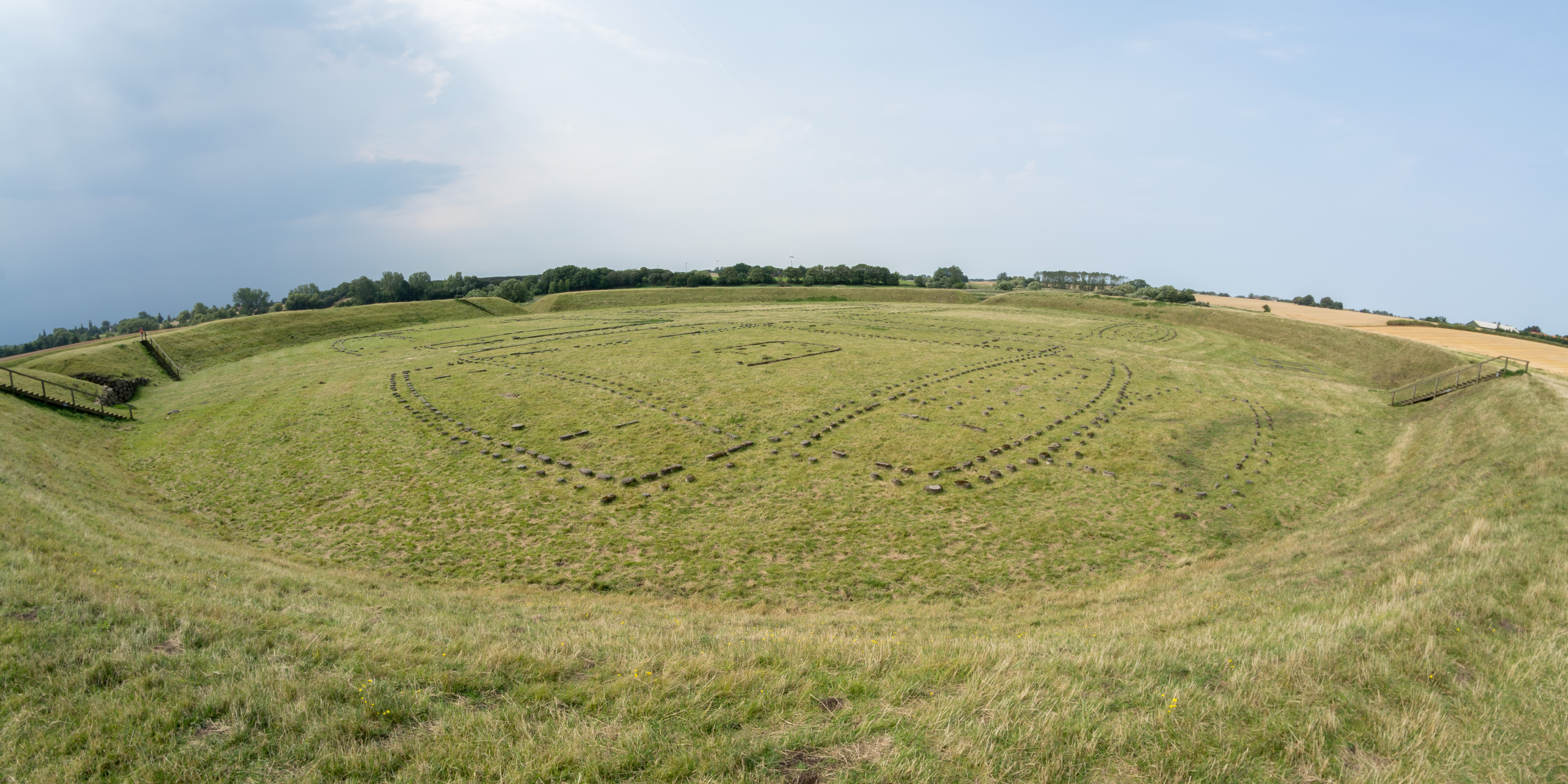 Viking fort Trelleborg (Slagelse Kommune).